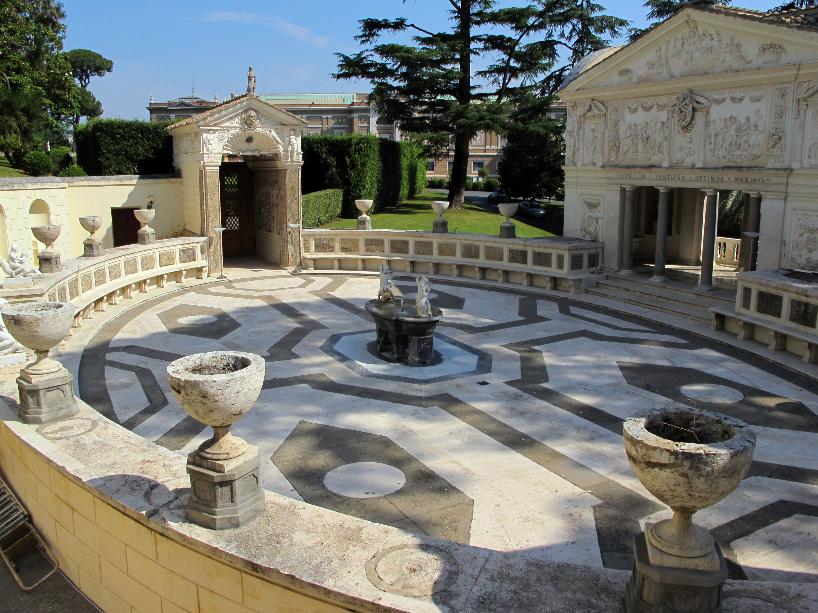 Pontifical Academy of Sciences, located in the Casino di Pio IV in Vatican City.